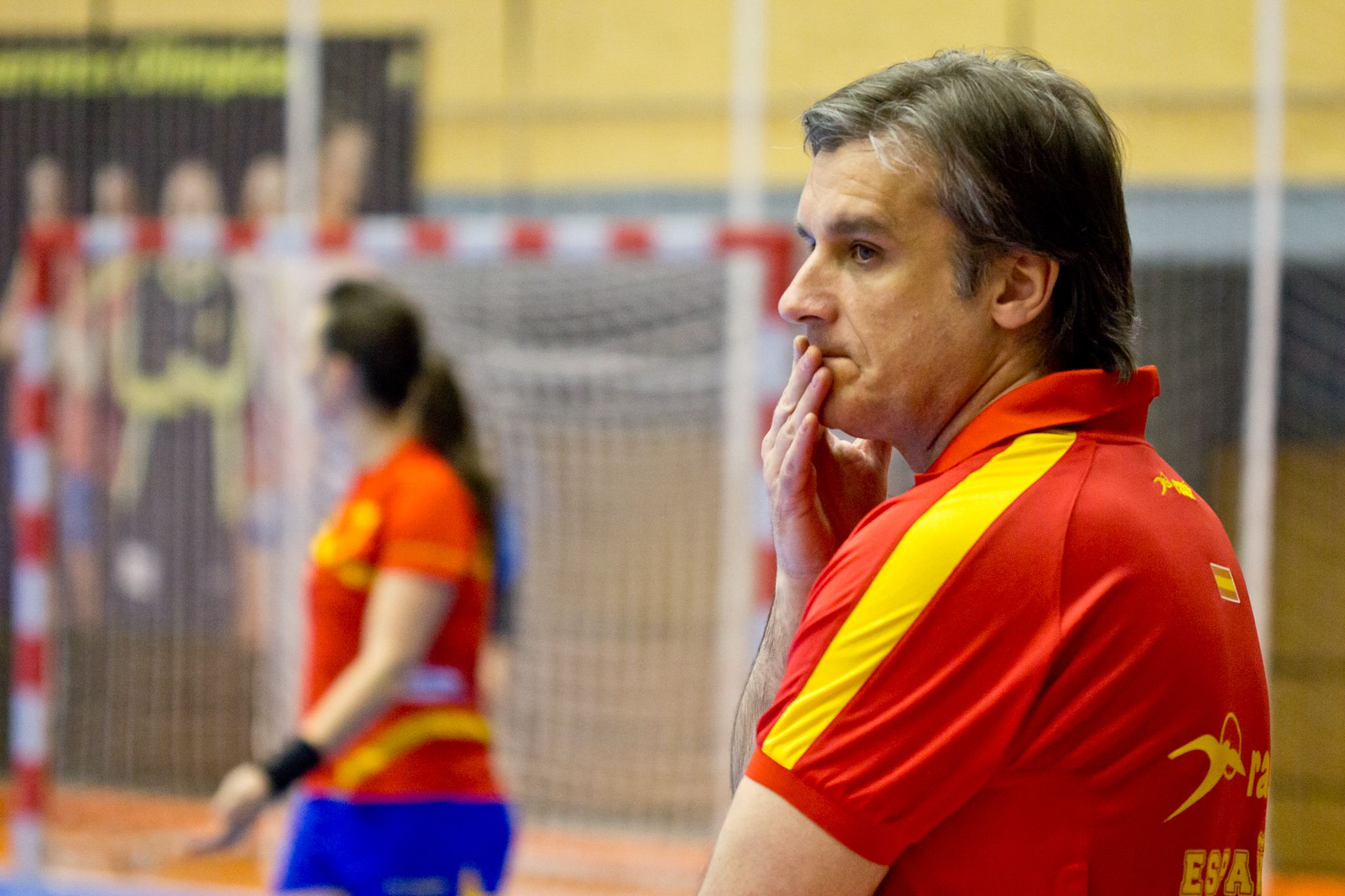 Jorge Dueñas, coach of the Spain women's national handball team, at the all Star Game 2013, held in San Sebastián de los Reyes, Madrid, Spain.